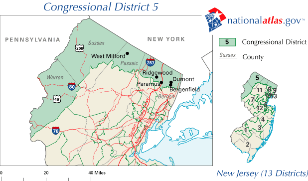 NJ's 5th US Congressional District. from Category:Congressional districts of New Jersey Category:New Jersey maps